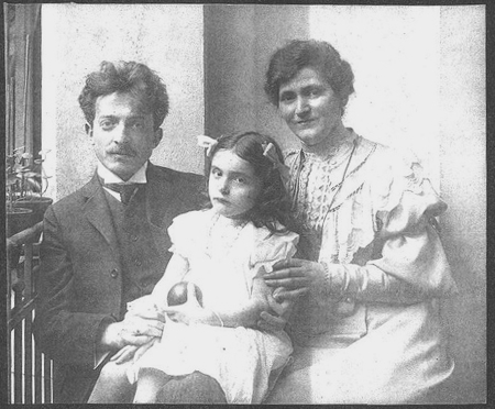 Ruth Poritzky with her parents Jacob Elias and Helene P. née Orzolkovsky. The photograph was probably taken in Berlin.